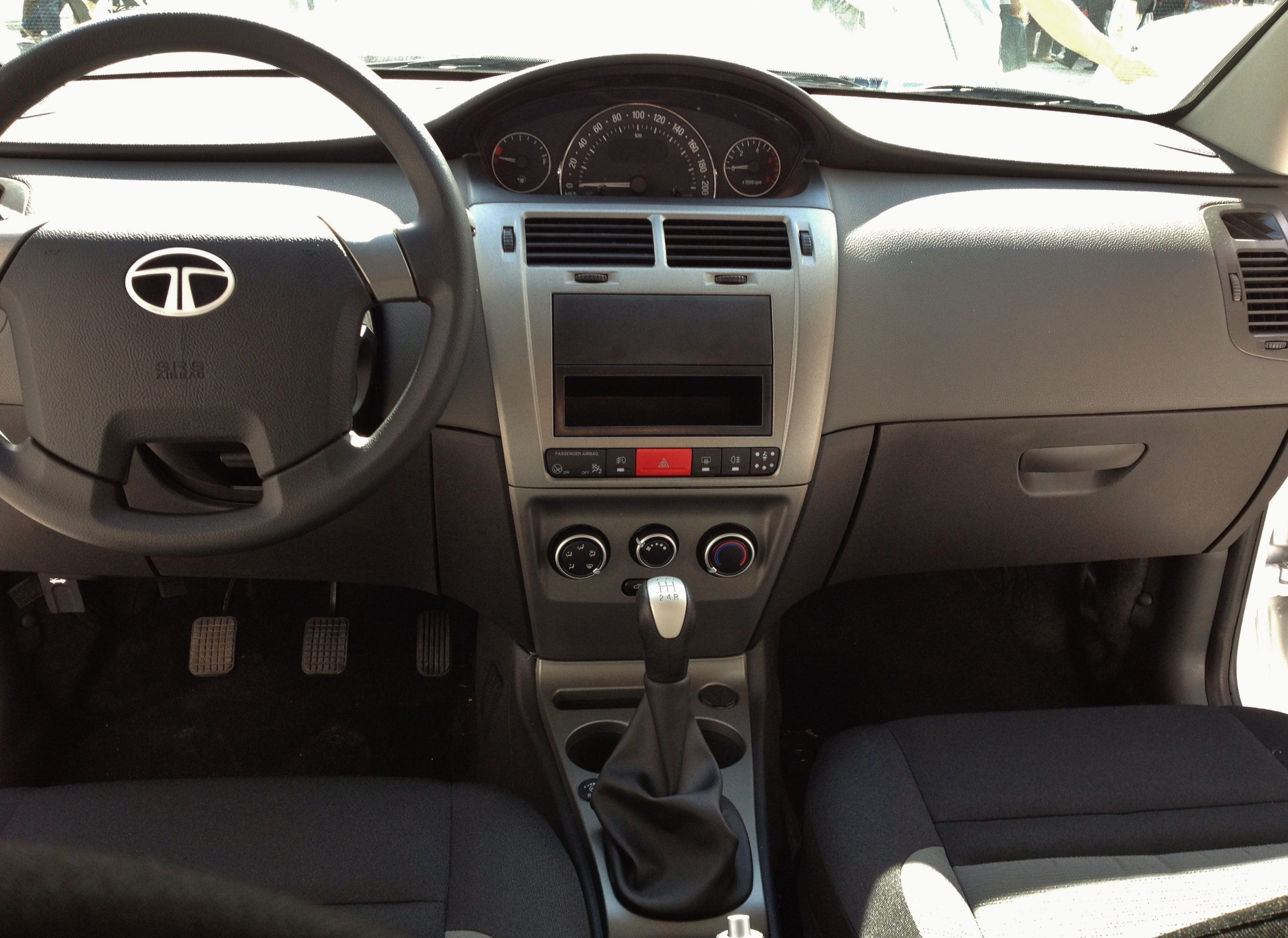 2012 Tata Indica Vista dashboard in Italy